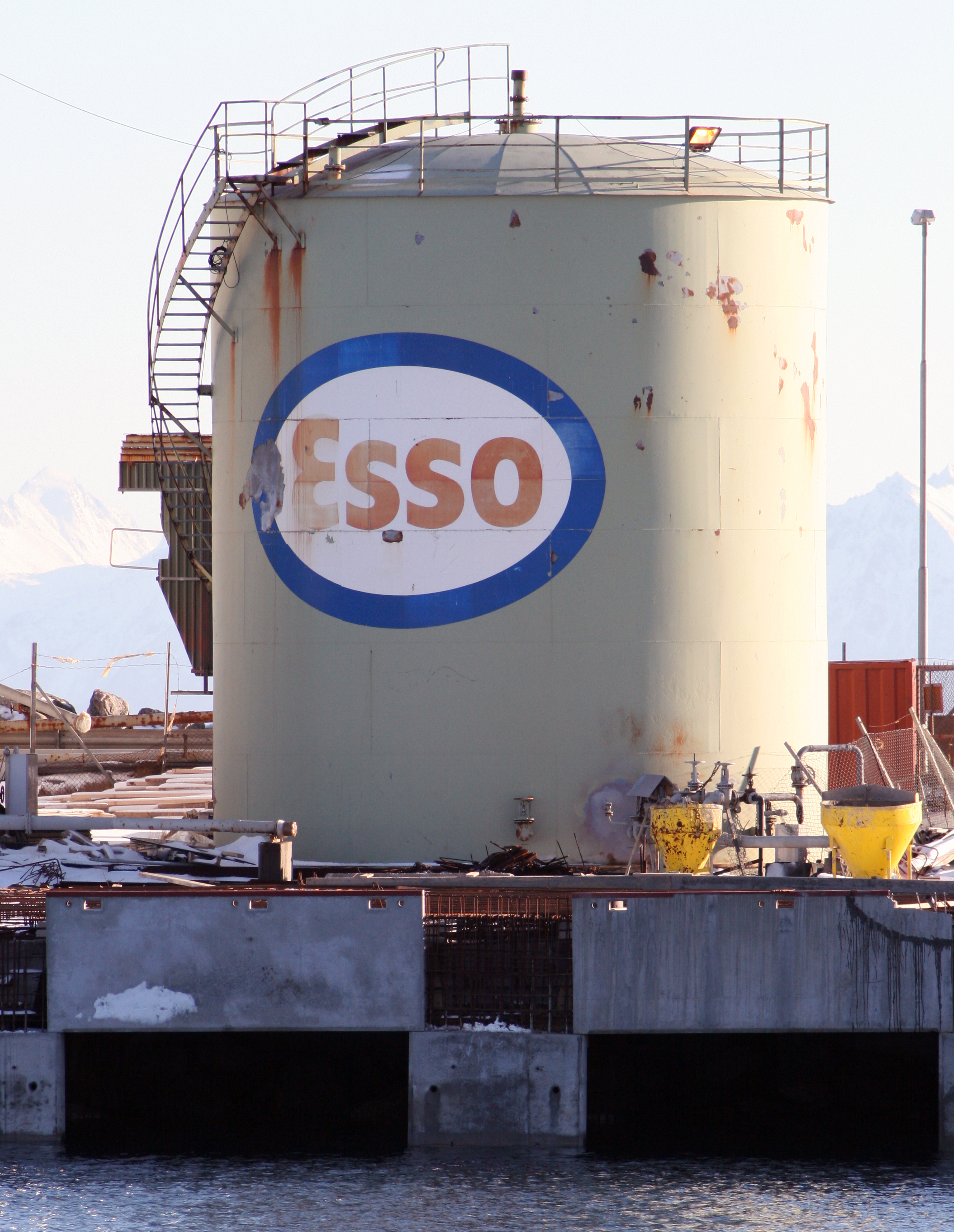 Esso oil tank at Andenes harbor, Norway (2008)